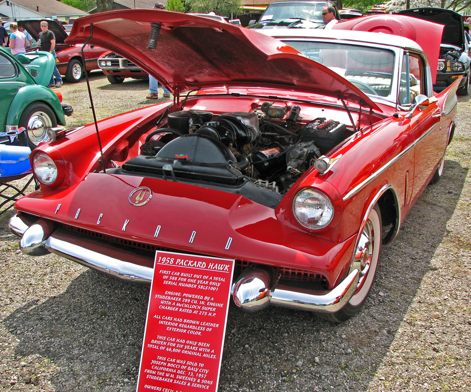 A rare 1958 Packard Hawk seen at the Piketon Dogwood Festival.